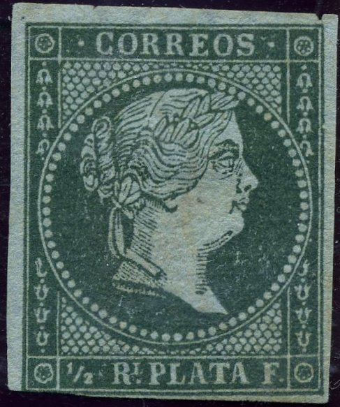 1855 Stamp of Cuba with 1st Portrait of Isabel II